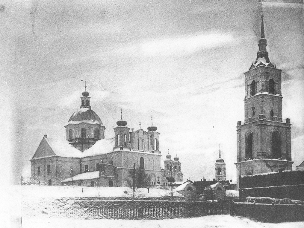 Monastery in Mahiloǔ